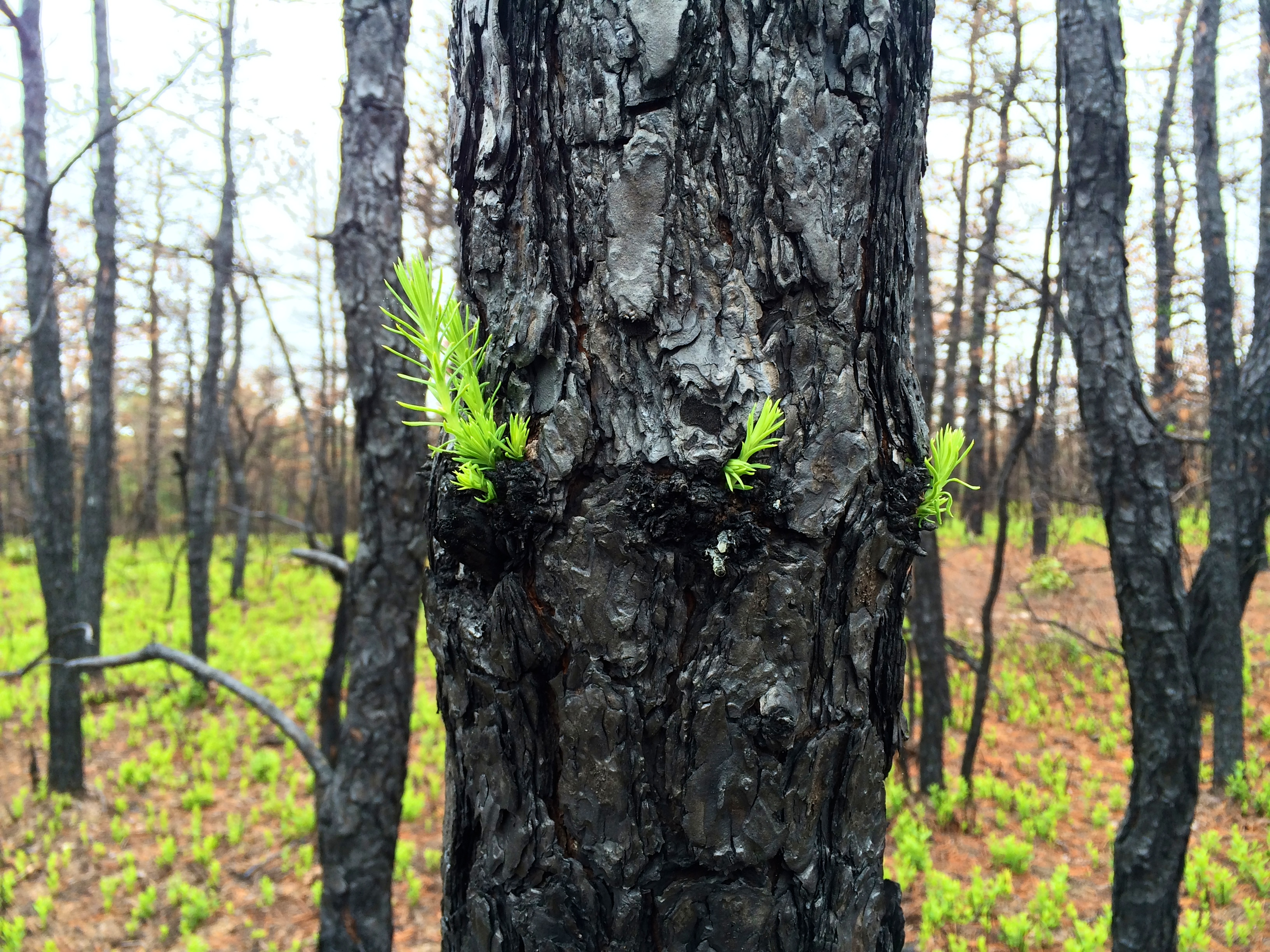 A pitch pine (Pinus rigida) displaying epicormic sprouting after a simulated wildfire in the pine plains, in the Pine Barrens of New Jersey.